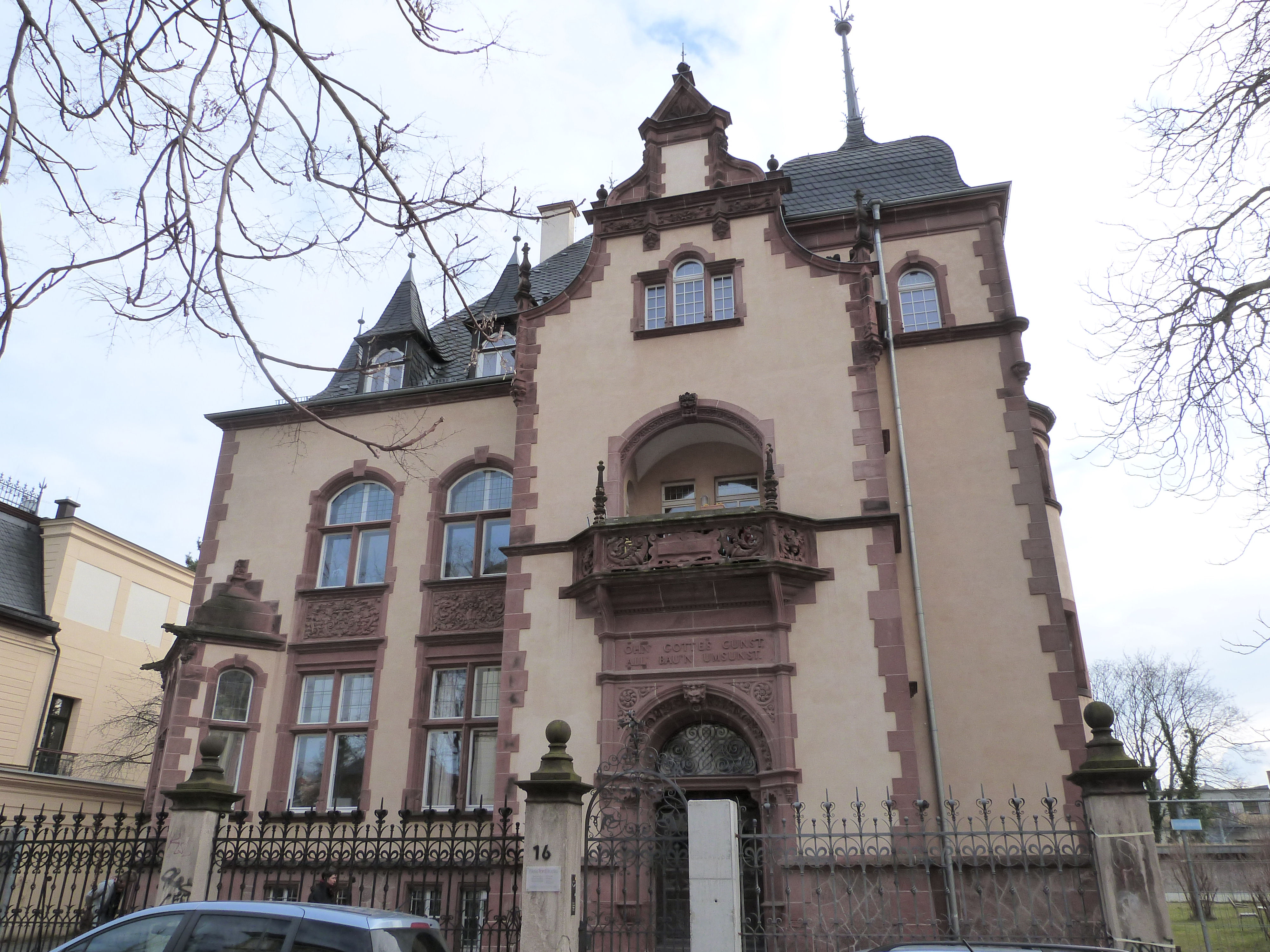 Villa Weise, Händelstrasse No. 16, Halle (Saale)